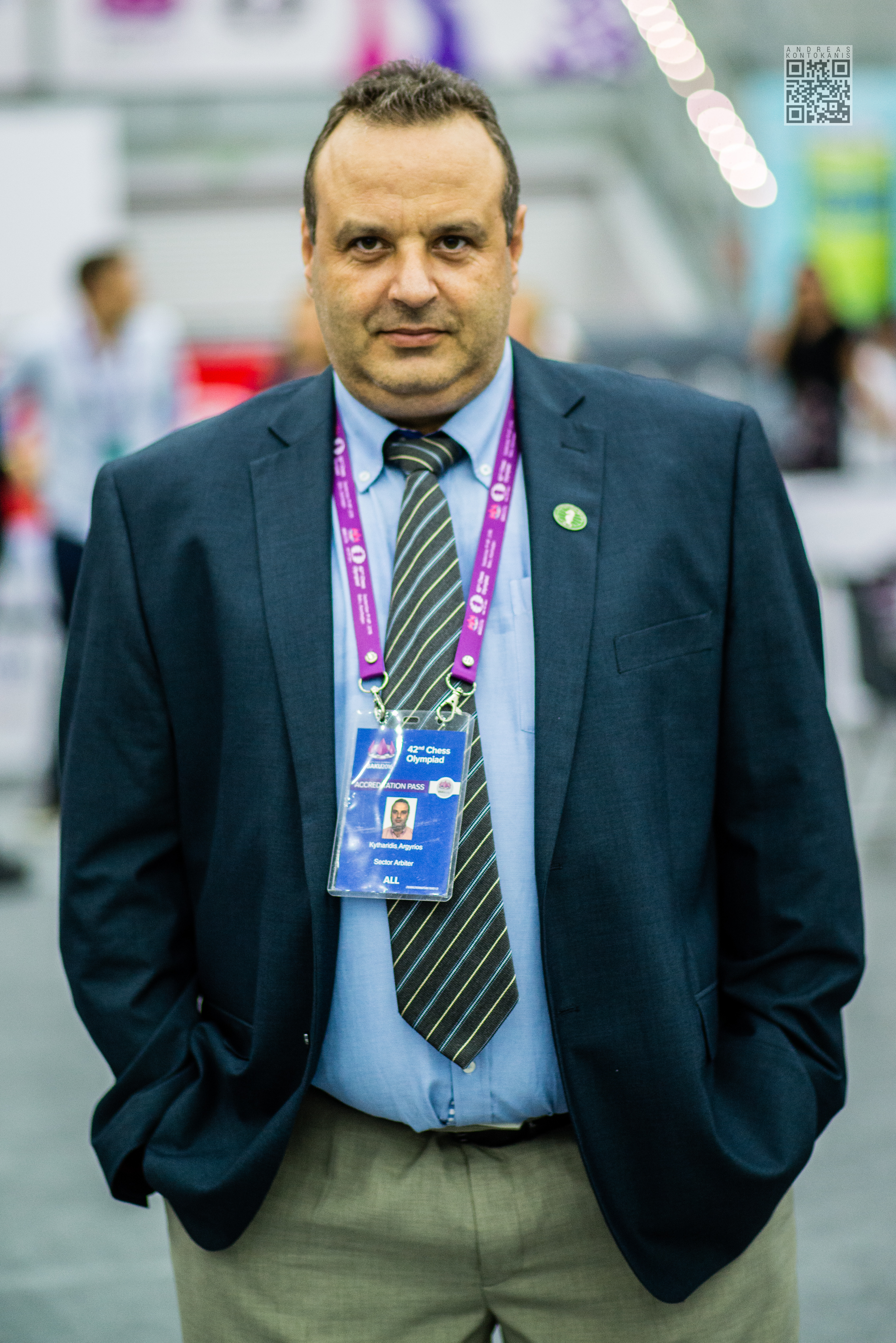 Argyris Kitharidis